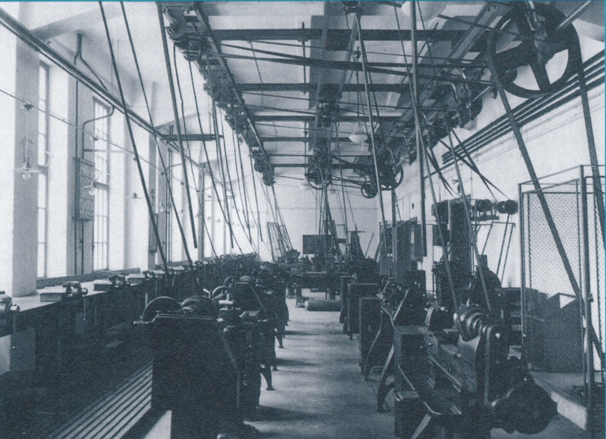 HTL Wiener Neustadt Lehrwerkstaetten 1929